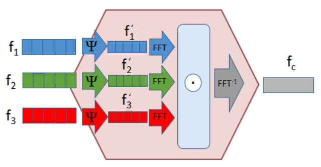 A diagram of how Compact Multilinear Pooling is used to combine features in a neural network.